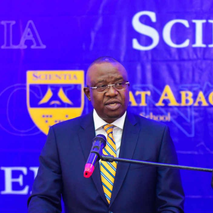 Prof. Samuel Sejjaaka at the MAT Abacus Business School Launch